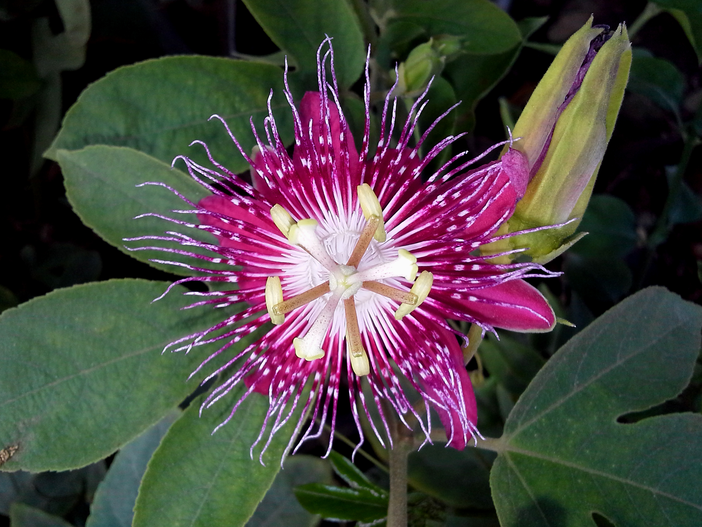 Passiflora 'Lady Margaret' cultivator Rakhi flower at Nizampet, Hyderabad